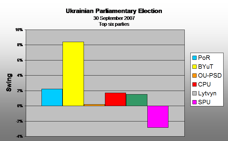 Ukrainian parliamentary election, 2007.